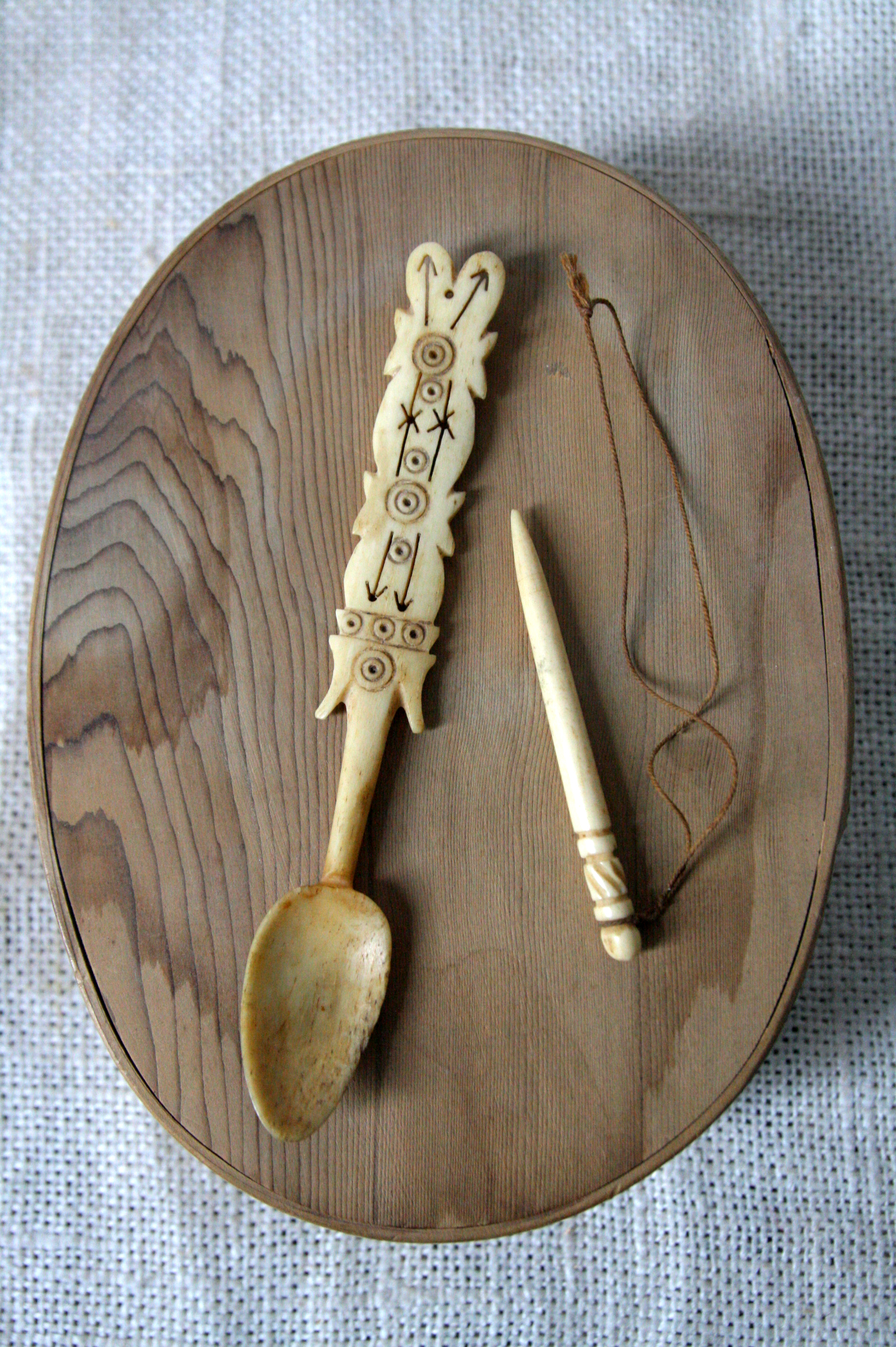 Bone tools from Székely land. (19th. century)